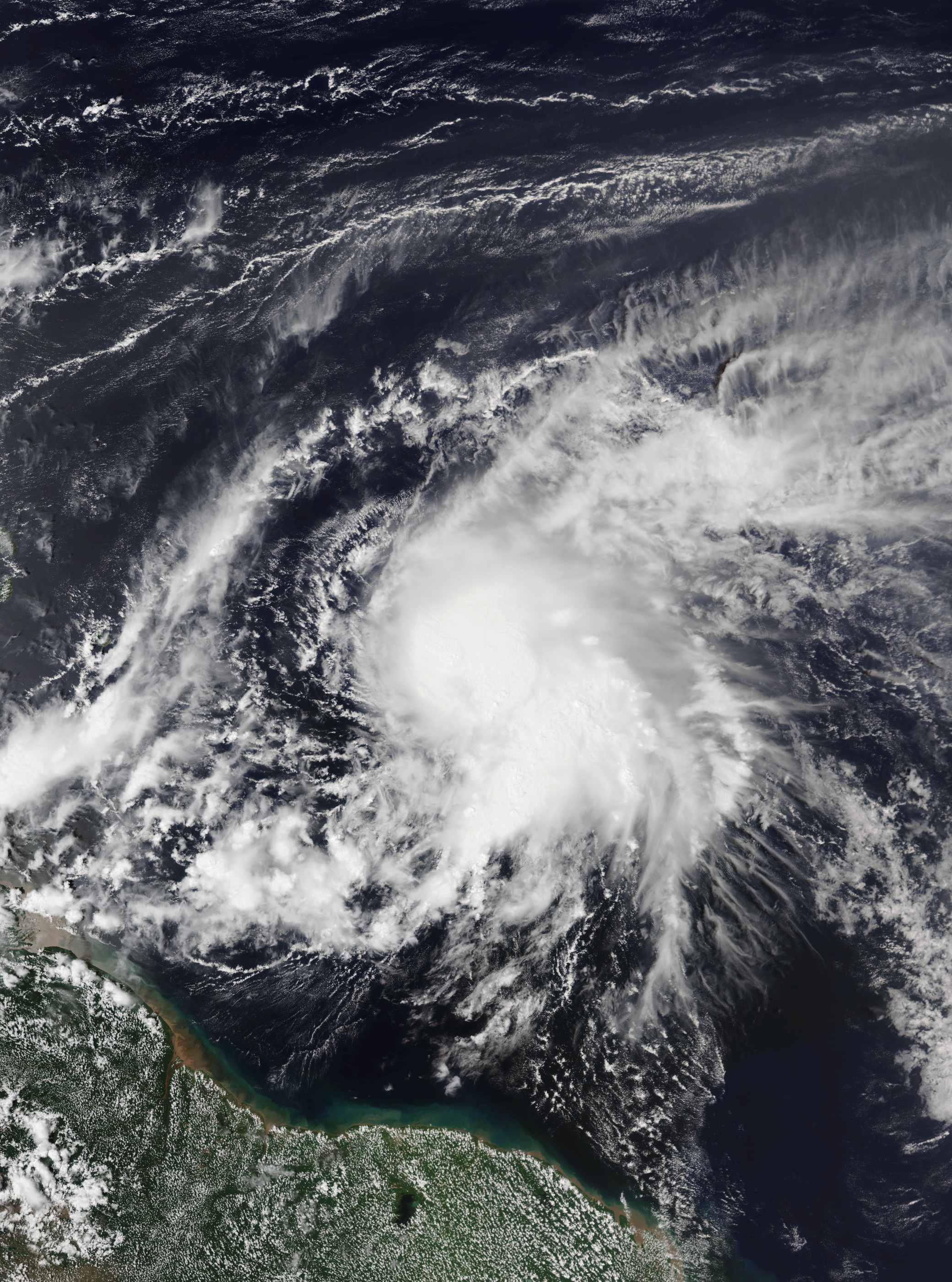 Tropical Storm Kirk at peak intensity approaching the Lesser Antilles on September 26, 2018